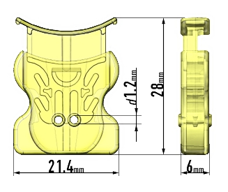 Latch seal1